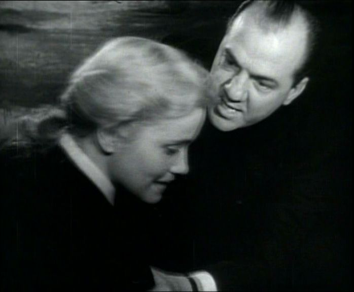 Eva Marie Saint and Karl Malden in a screenshot from the trailer for the film On the Waterfront.